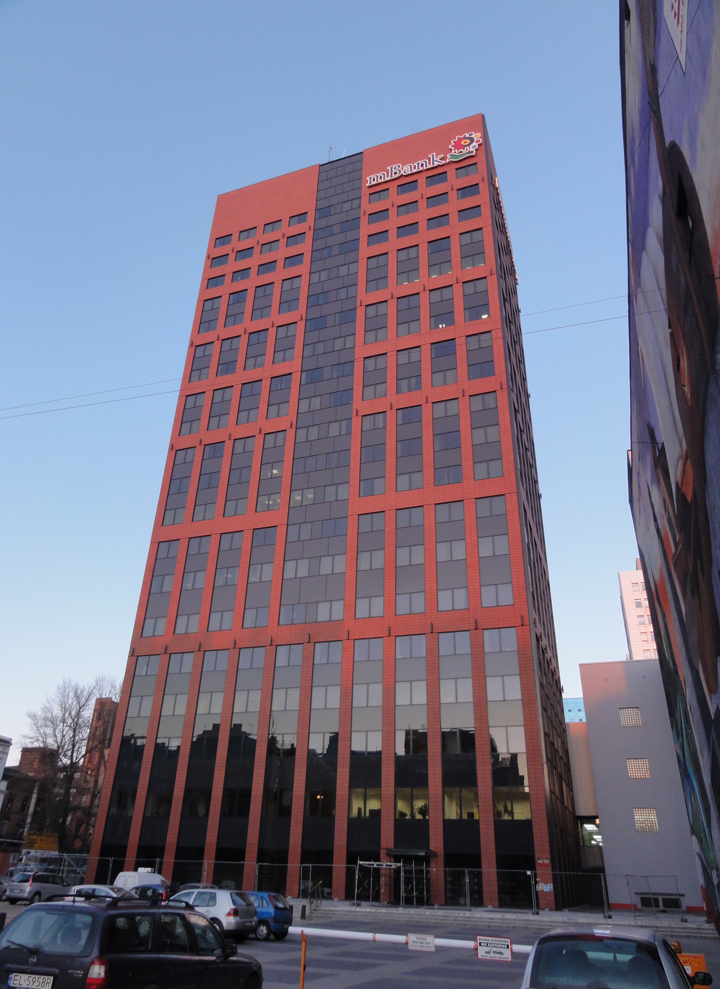 Red Tower in Łódź (mBank)